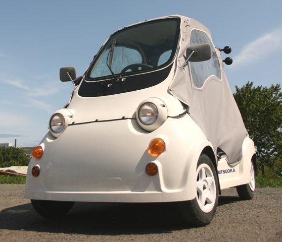 Mitsuoka MC-1